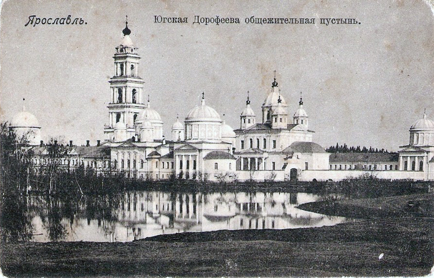 Yugskaya Dorofeeva Pustyn. This monastery was founded near Rybinsk and Mologa. Now it flooded by Rybinsk reservoir